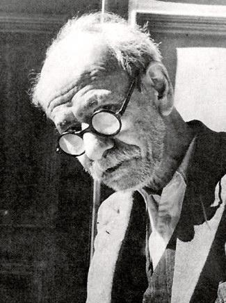 Allameh Ali Akbar Dehkhodā, prominent prominent Iranian linguist, and author of the most extensive dictionary of the Persian language ever published.